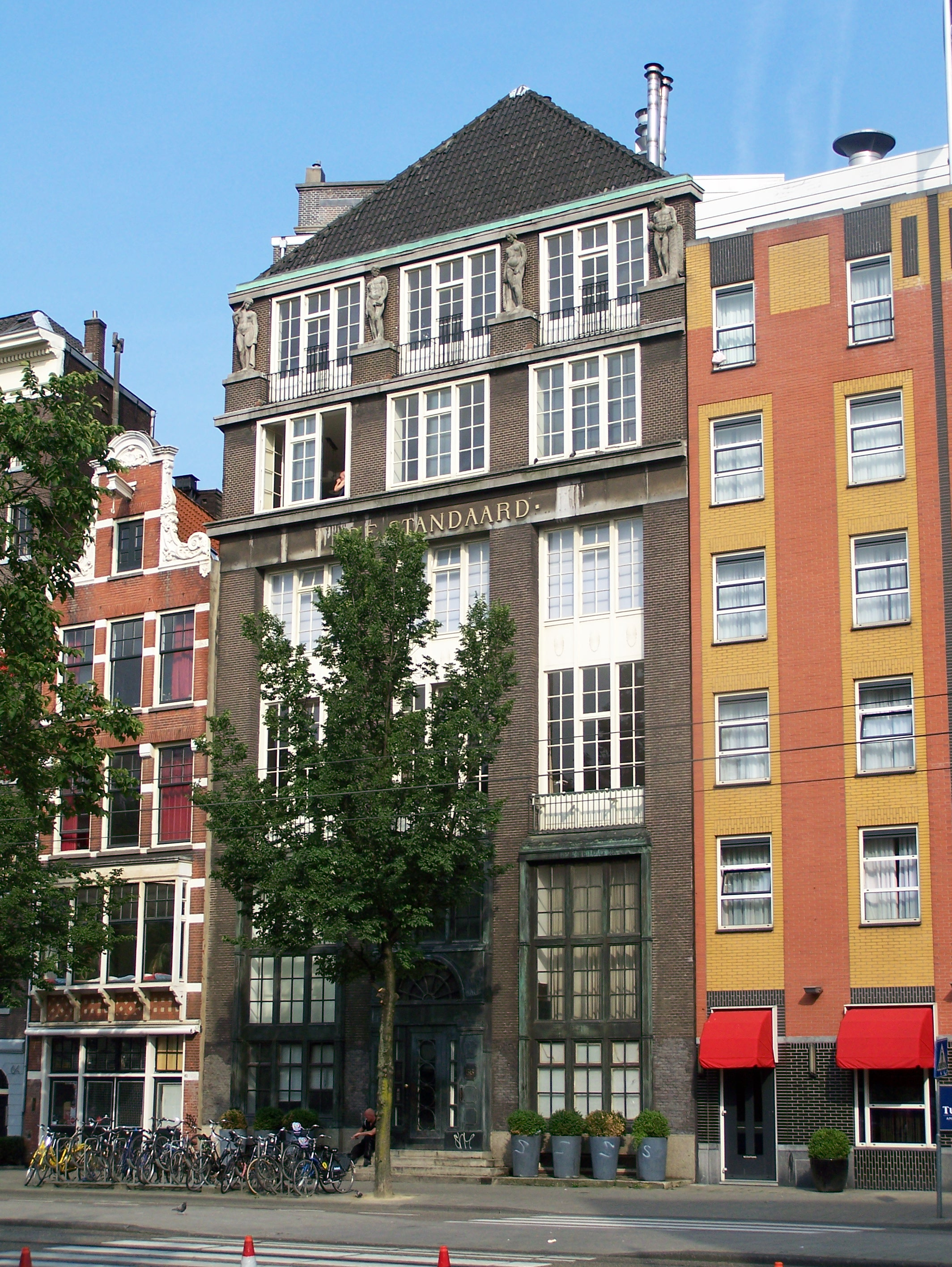 Building of the former Dutch newspaper "De Standaard" at the Nieuwezijds Voorburgwal in Amsterdam. Now in use as an apartment building. Built by architect Jac. Duncker.